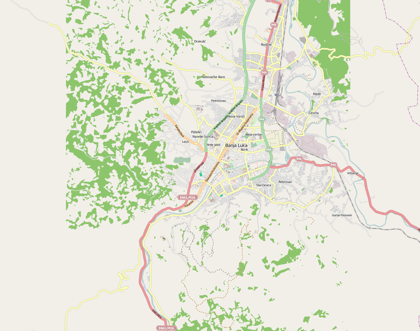 Banja Luka location map